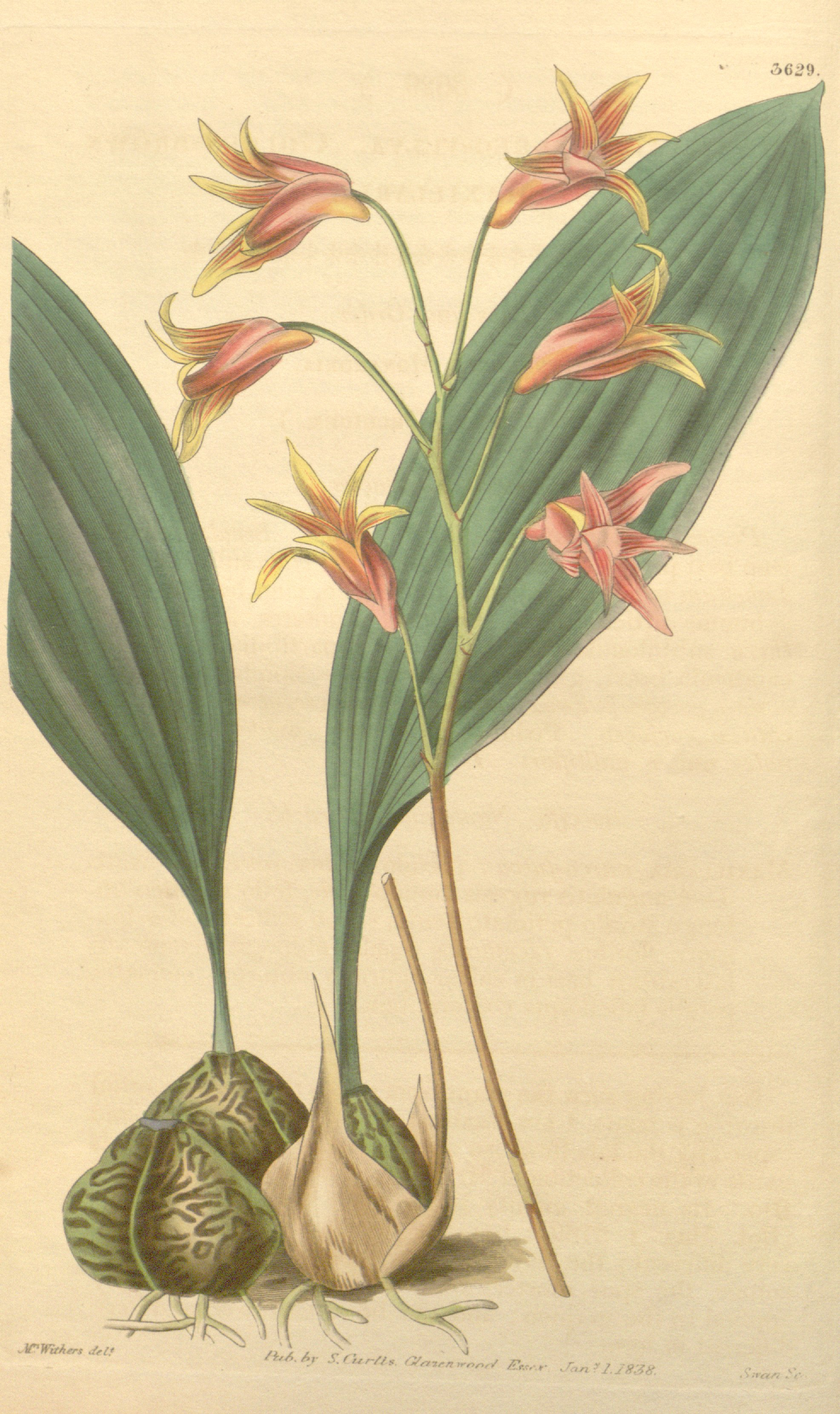 Illustration of Bifrenaria aureofulva (as syn. Maxillaria aureo-fulva)